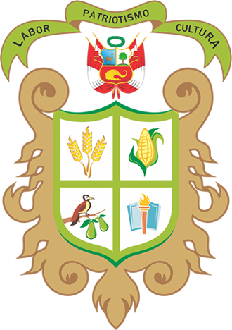 SÍMBOLOS DEL DISTRITO